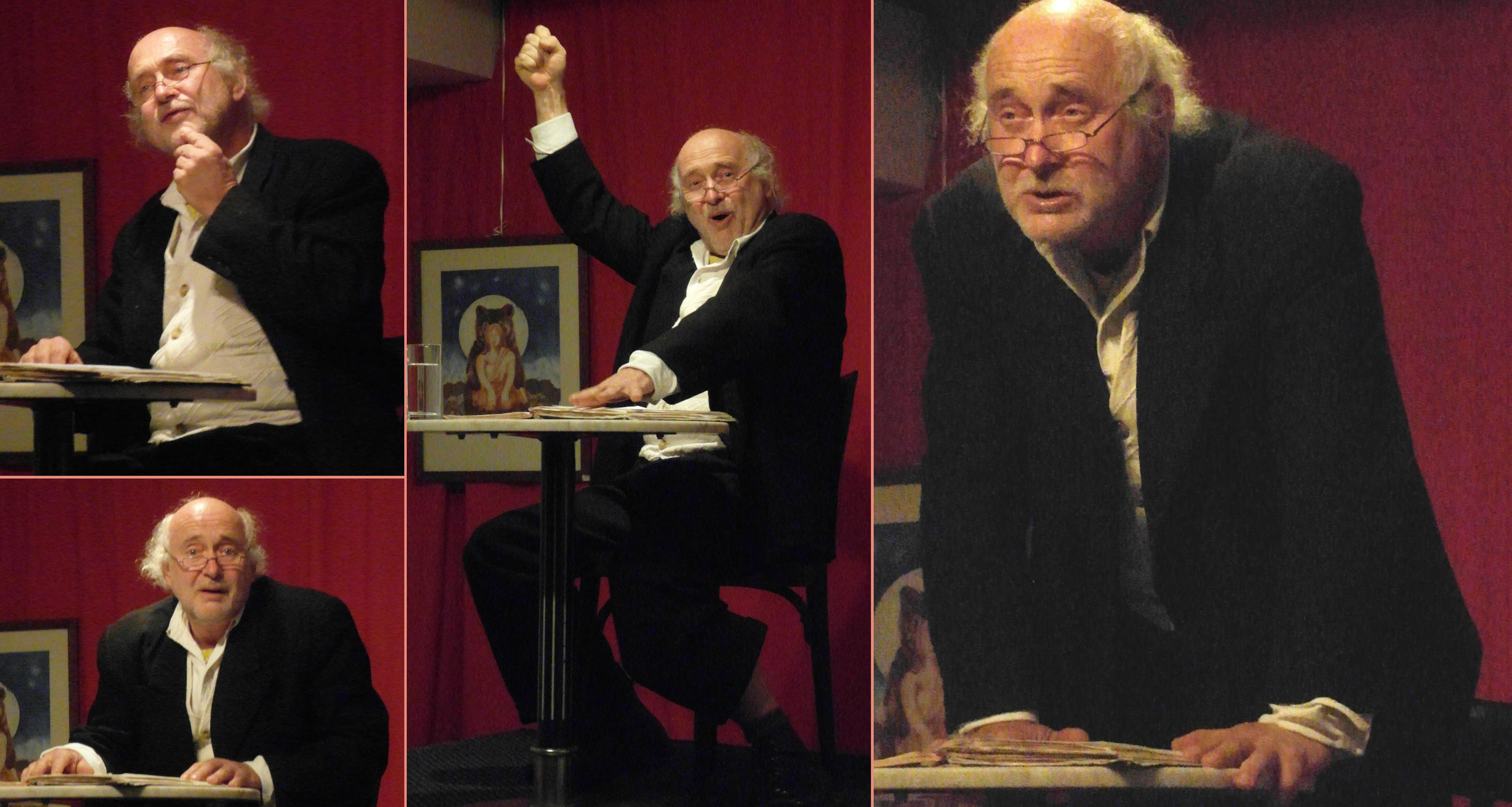 Austrian actor Justus Neumann reads parts of Karl Kraus's drama 'The Last Days of Mankind', in café 'Leopoldi', in Vienna, Austria.